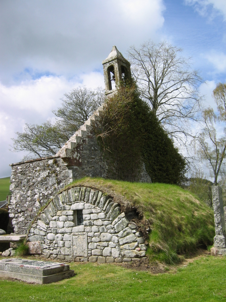 Ruin of Broughton Kirk, Scottish Borders, Scotland